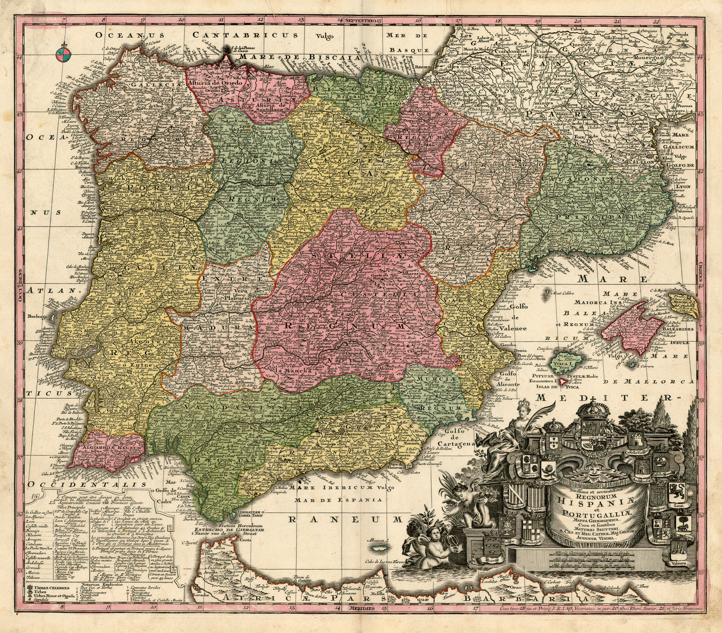 Matthaeus Seutter, Novissima et Accuratissima Regnorum Hispaniae et Portugalliae Mappa Geographica..., Augsburg, 1734